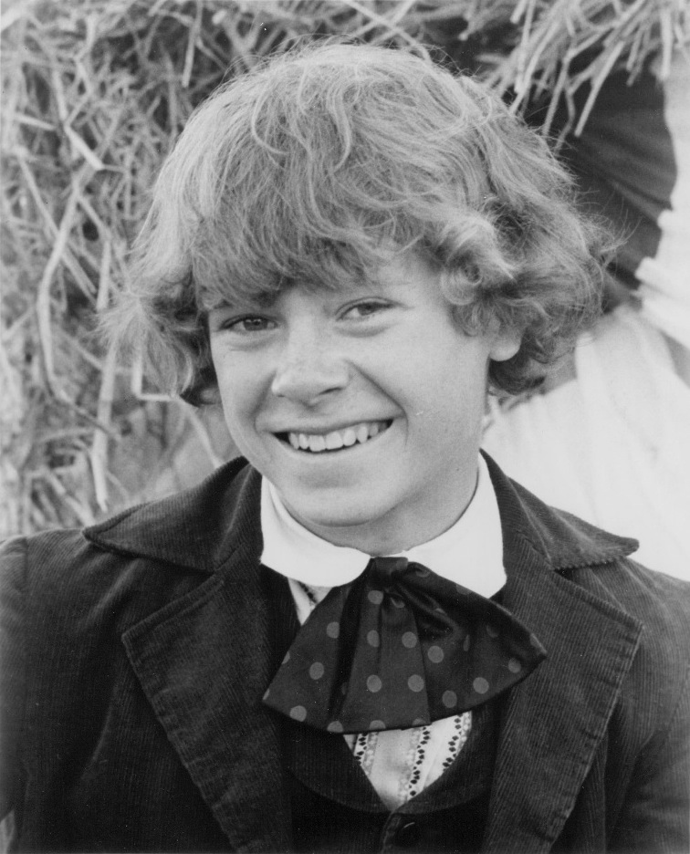 Publicity photo of American teen actor, Jeff East promoting his role as Huckleberry Finn in the United Artists feature films Tom Sawyer (1973) and Huckleberry Finn (1974).